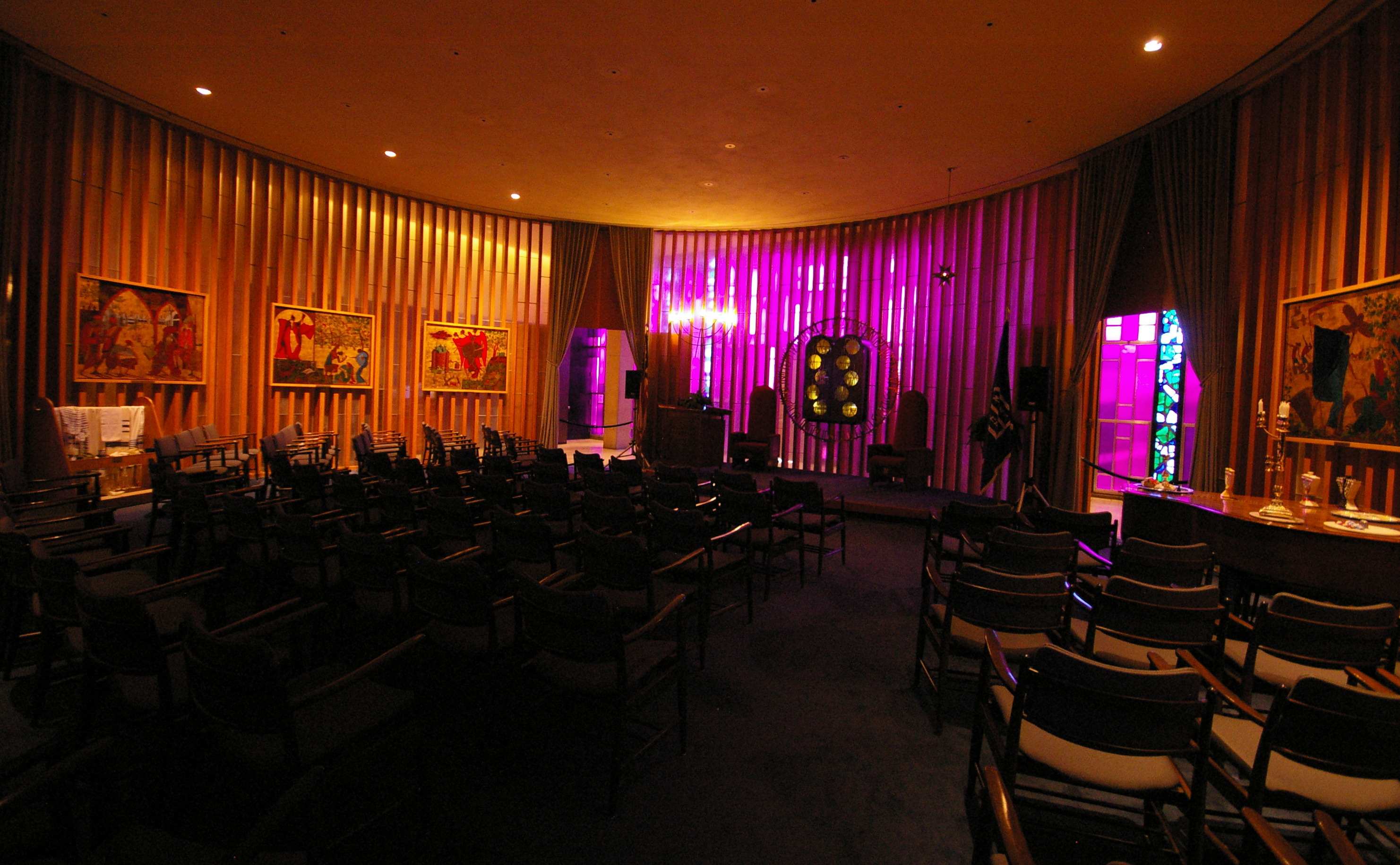 This is the Jewish chapel, in the lower floor of the Air Force Academy Cadet Chapel.